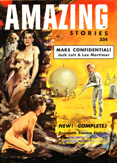 Cover of Amazing Stories, April-May 1953